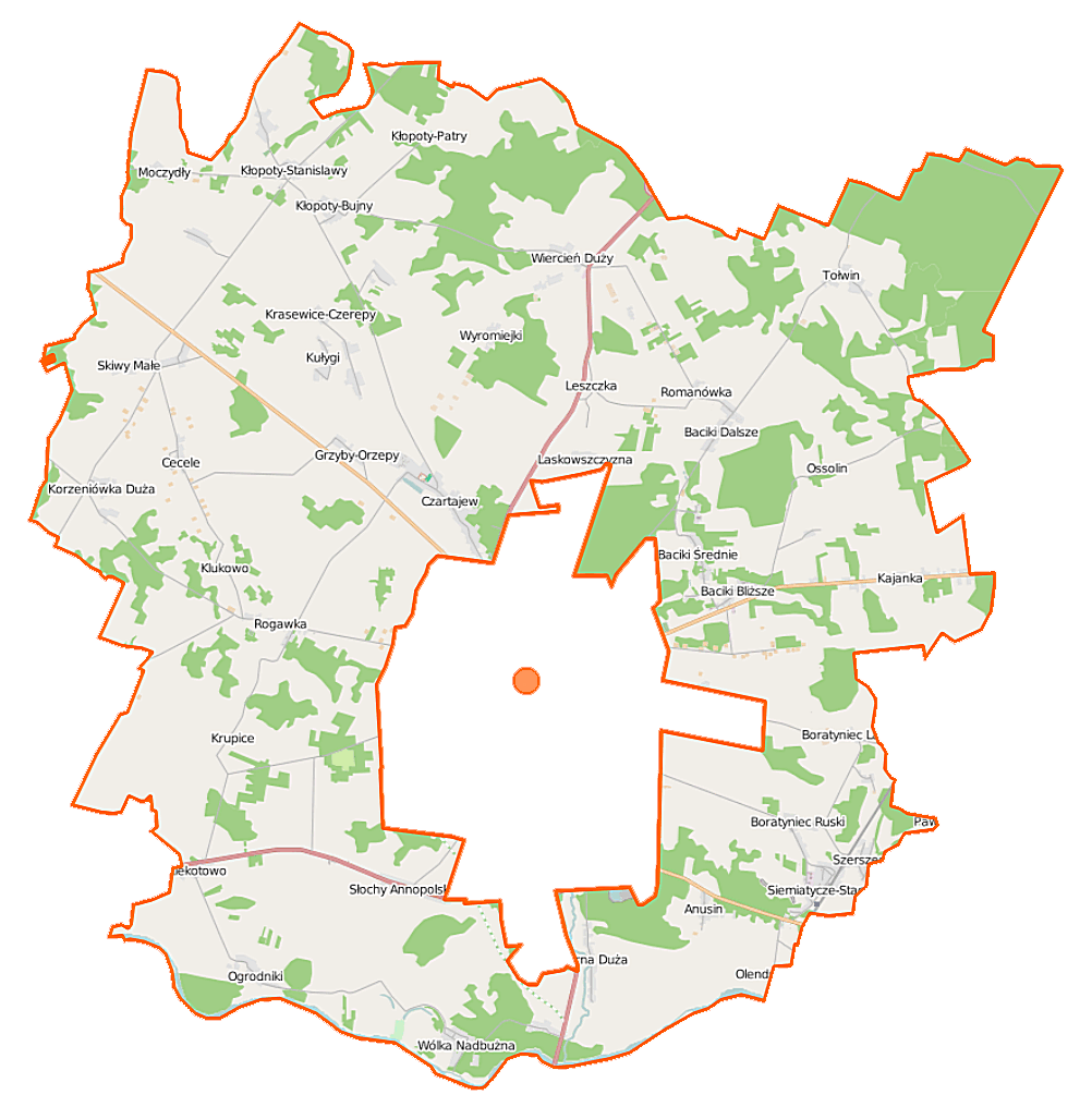 Map of Gmina Siemiatycze, Poland This map of Siemiatycze (gmina wiejska) was created from OpenStreetMap project data, collected by the community. This map may be incomplete, and may contain errors. Don't rely solely on it for navigation. Border coordinates52.543822.7170←↕→23.020552.3559